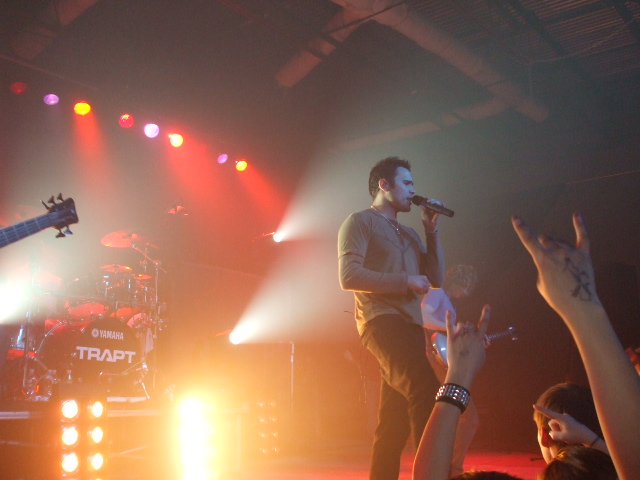 Trapt performing at the Jingle Bell Jam Concert in Abilene Texas on December 4, 2007